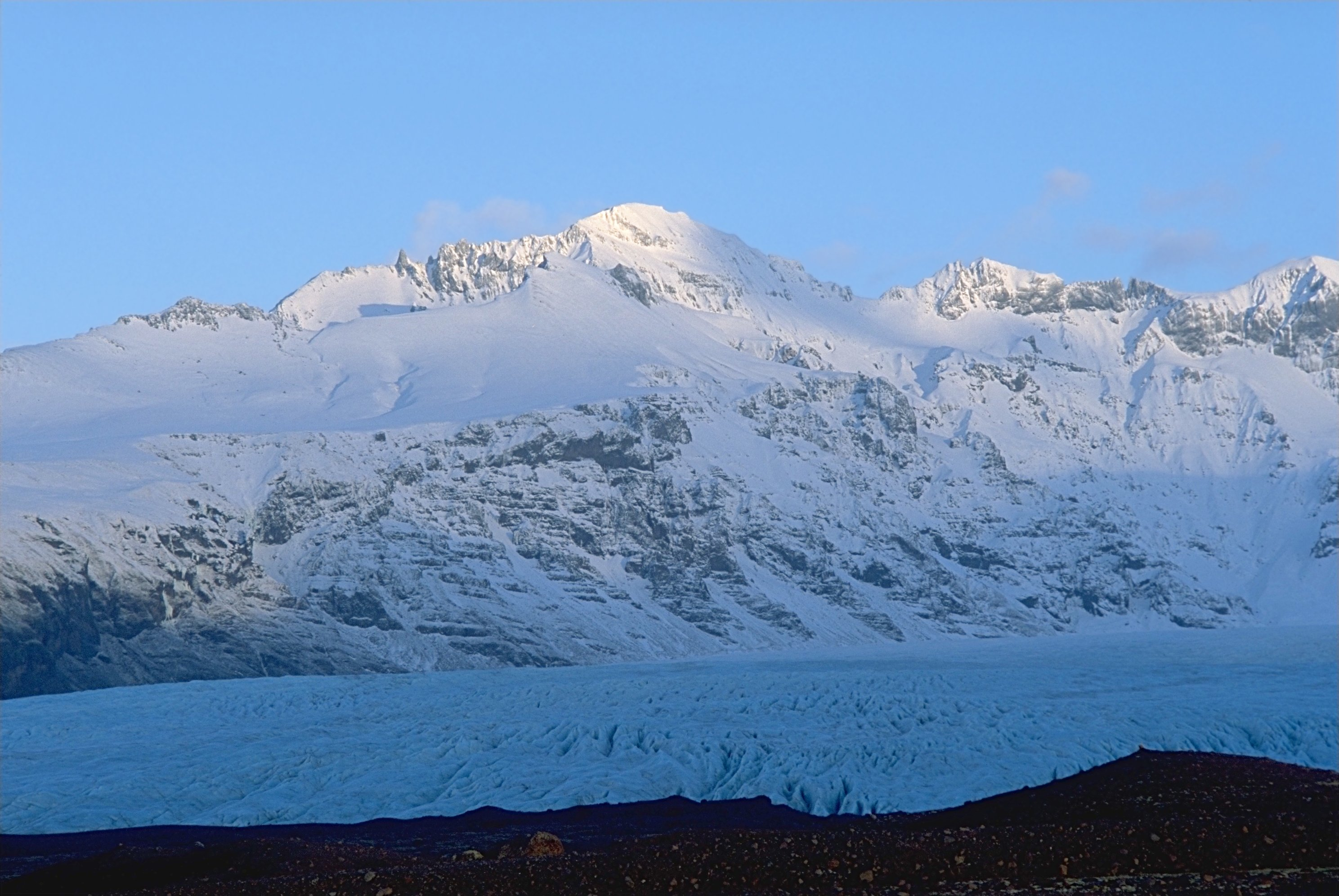 Öraefajökull (part of Vatnajökull) at morning, Iceland Photo was taken using the following technique: Film: Fuji Velvia Lens: 4/70-210 Filter: none Body: Minolta 7 Support: Manfrotto 190B Image with Information in English Bild mit Informationen auf Deutsch